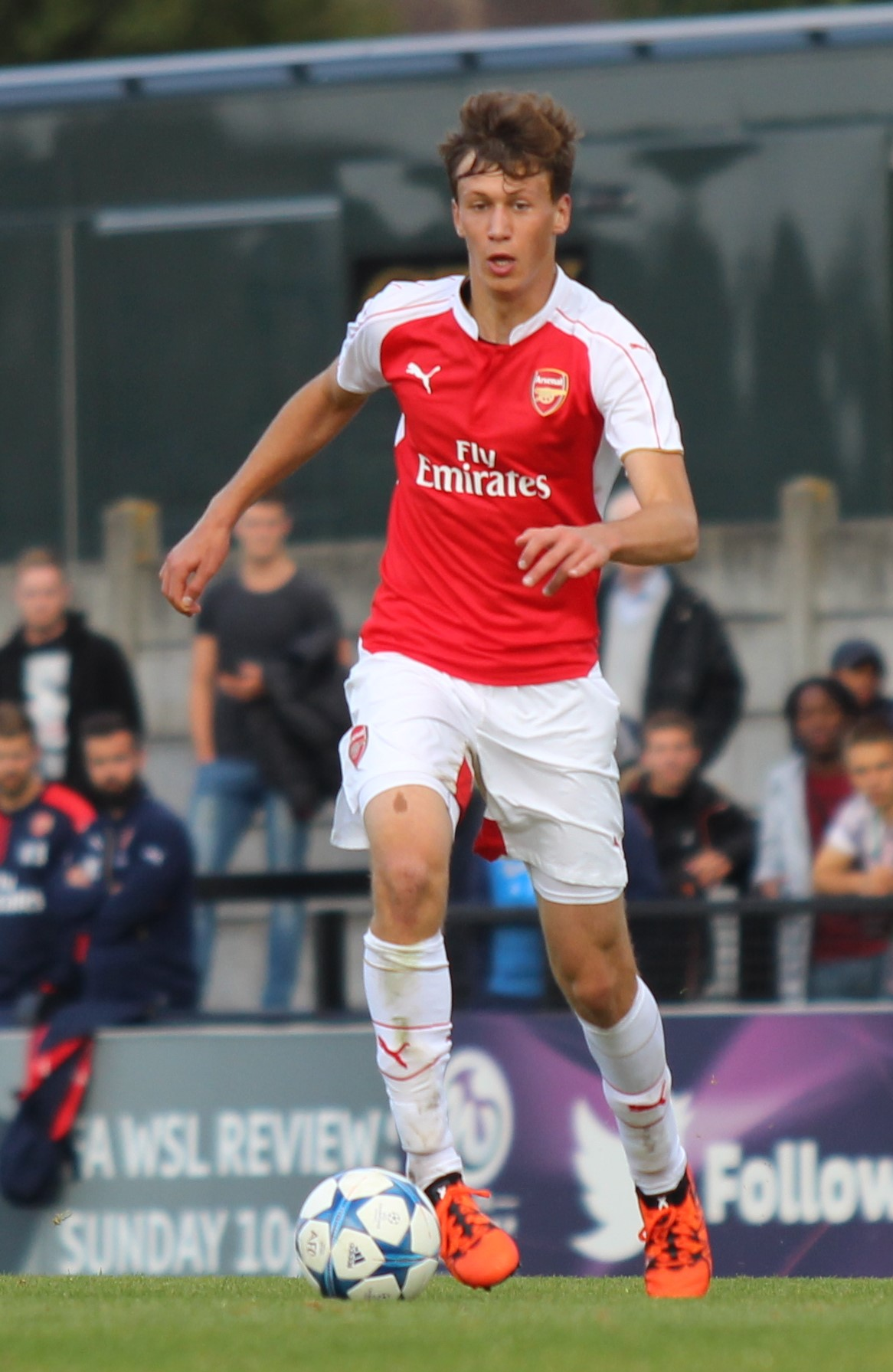 Krystian Bielik of Arsenal U19s on the ball during the game against Bayern Munich.